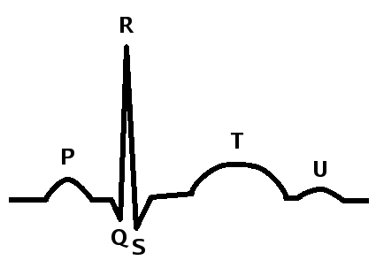 QRS complex diagram, drawn by Matt Otto.